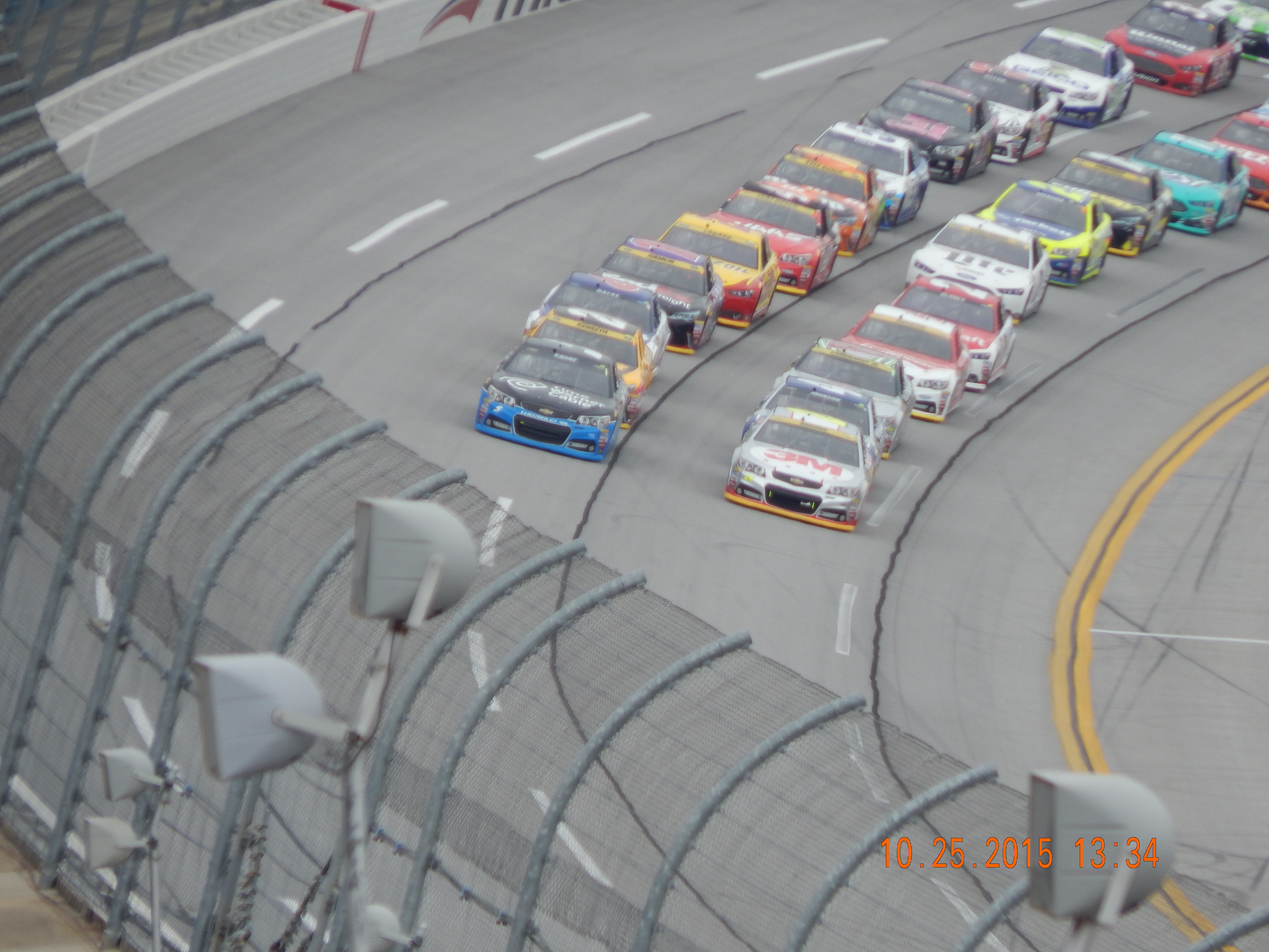 Jeff Gordon leads the field to the start of the 500 at Talladega.